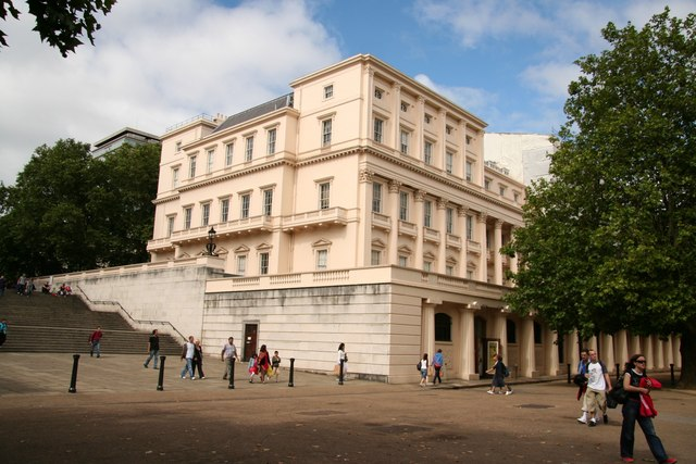 Carlton House Terrace By John Nash 1827 - 1832